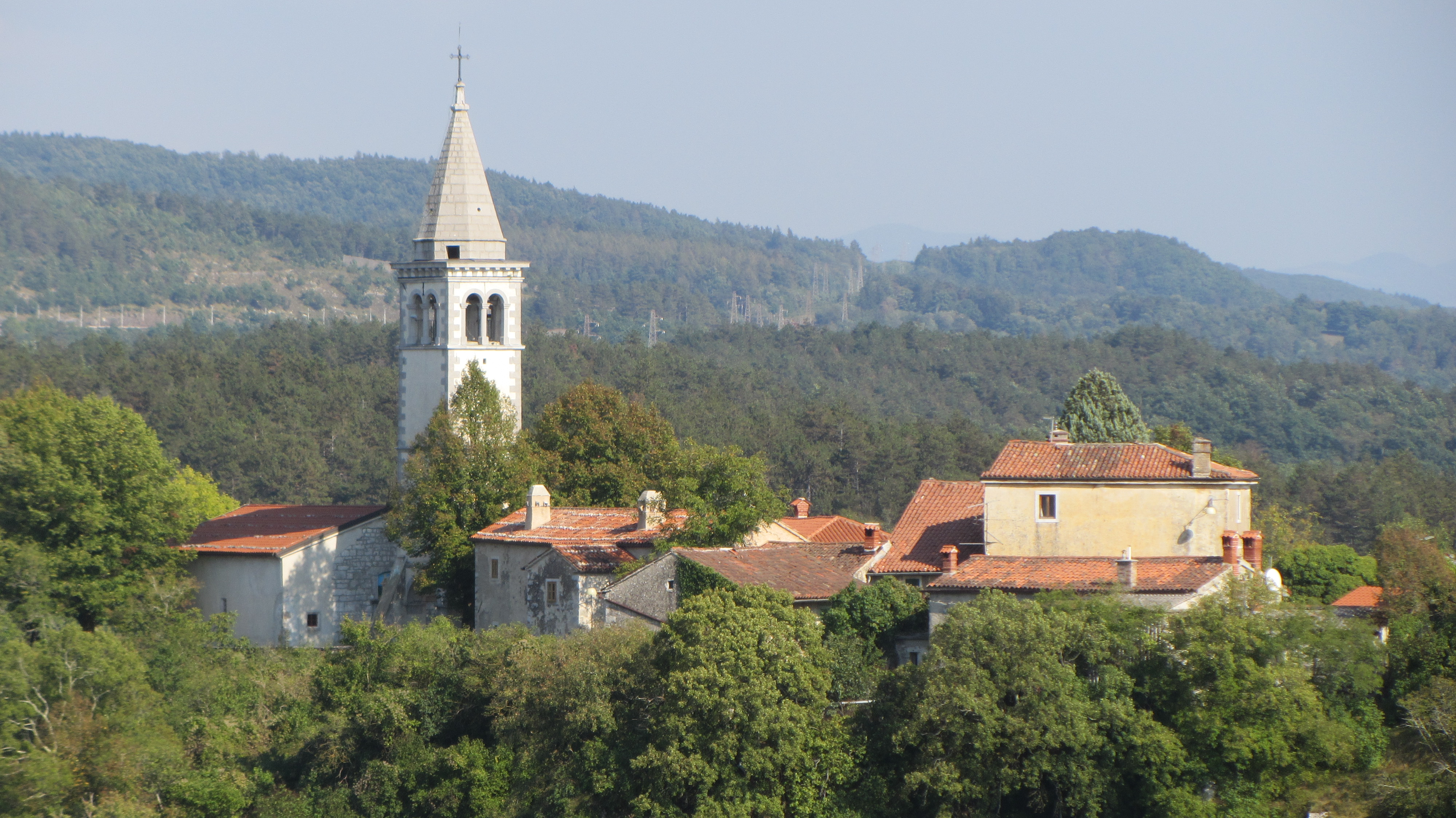 The village of Škocjan in the Municipality of Divača, southwestern Slovenia.